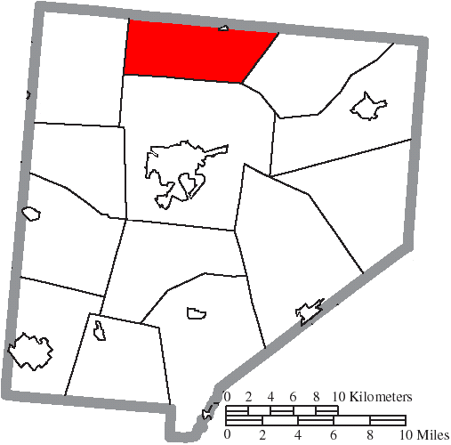 Map of the municipal and township boundaries of Clinton County, Ohio, United States, as of the 2000 census, with the location of Liberty Township highlighted. Township borders are shown only in unincorporated areas in order to differentiate incorporated and unincorporated areas more clearly.